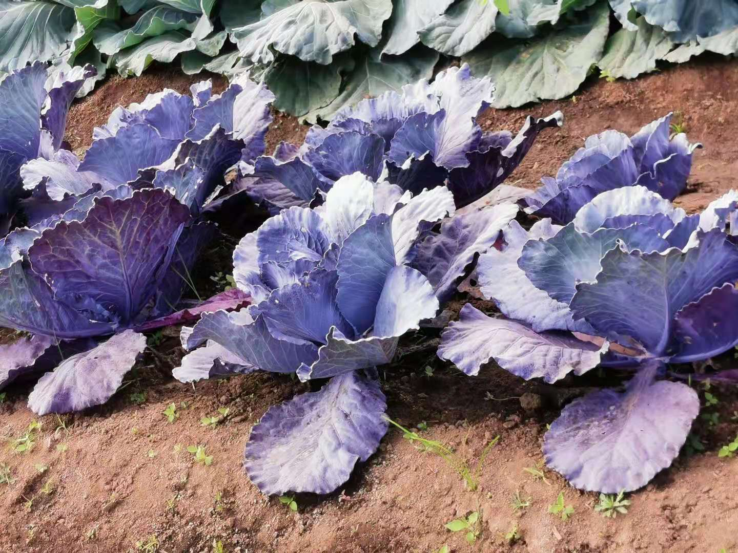 Violet cabbage. Taichung, Taiwan.